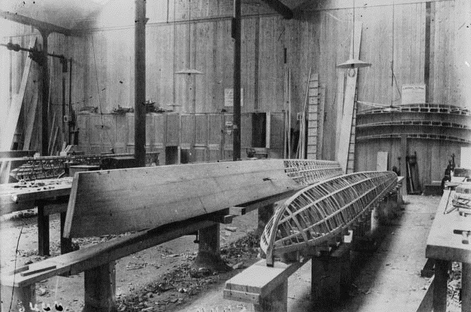 Workshop of the Hanriot aircraft company at Reims, 1909